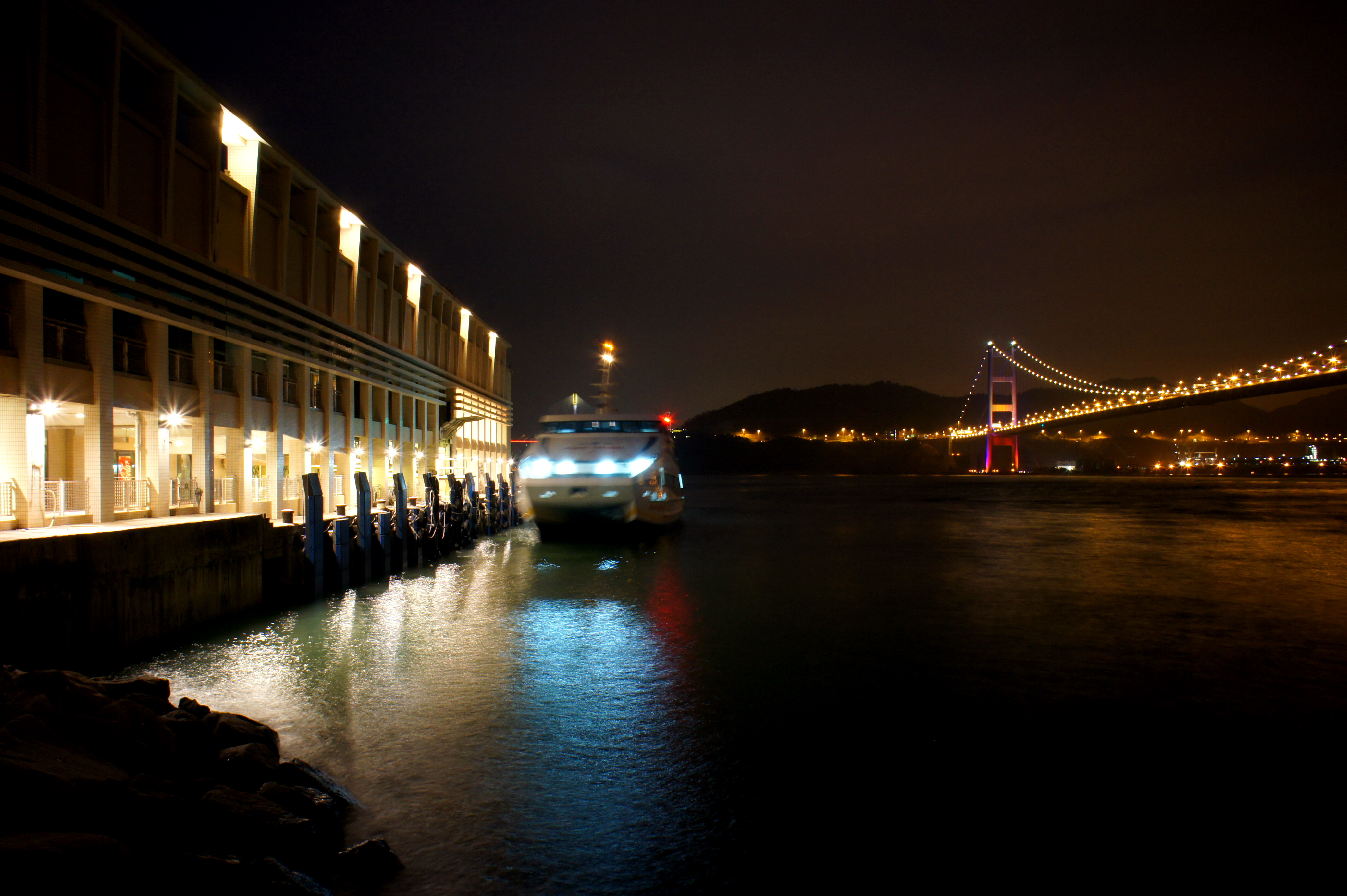 Park Island Ferry Pier at night, Ma Wan, Hong Kong. On the right is Tsing Ma Bridge.